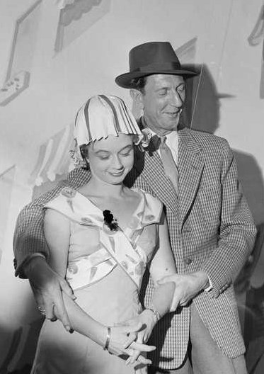 Unni Bernhoft, Leif Juster, Norwegian actors